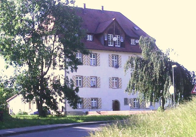 Castle Willmendingen